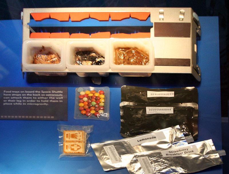 Galley tray used aboard the Space Shuttle. Image taken at the Astronaut Hall of Fame in Titusville, Florida.